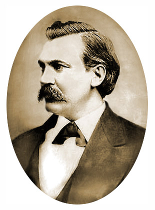 Lewis Metzler Clement (1837-1914) Chief Assistant Engineer, Acting Chief Engineer, & Superintendent of Track of the Central Pacific Railroad of California (1862-81) (The Cooper Collection of Early American Railroadiana) (1865 PD photograph digitally restored by uploader)